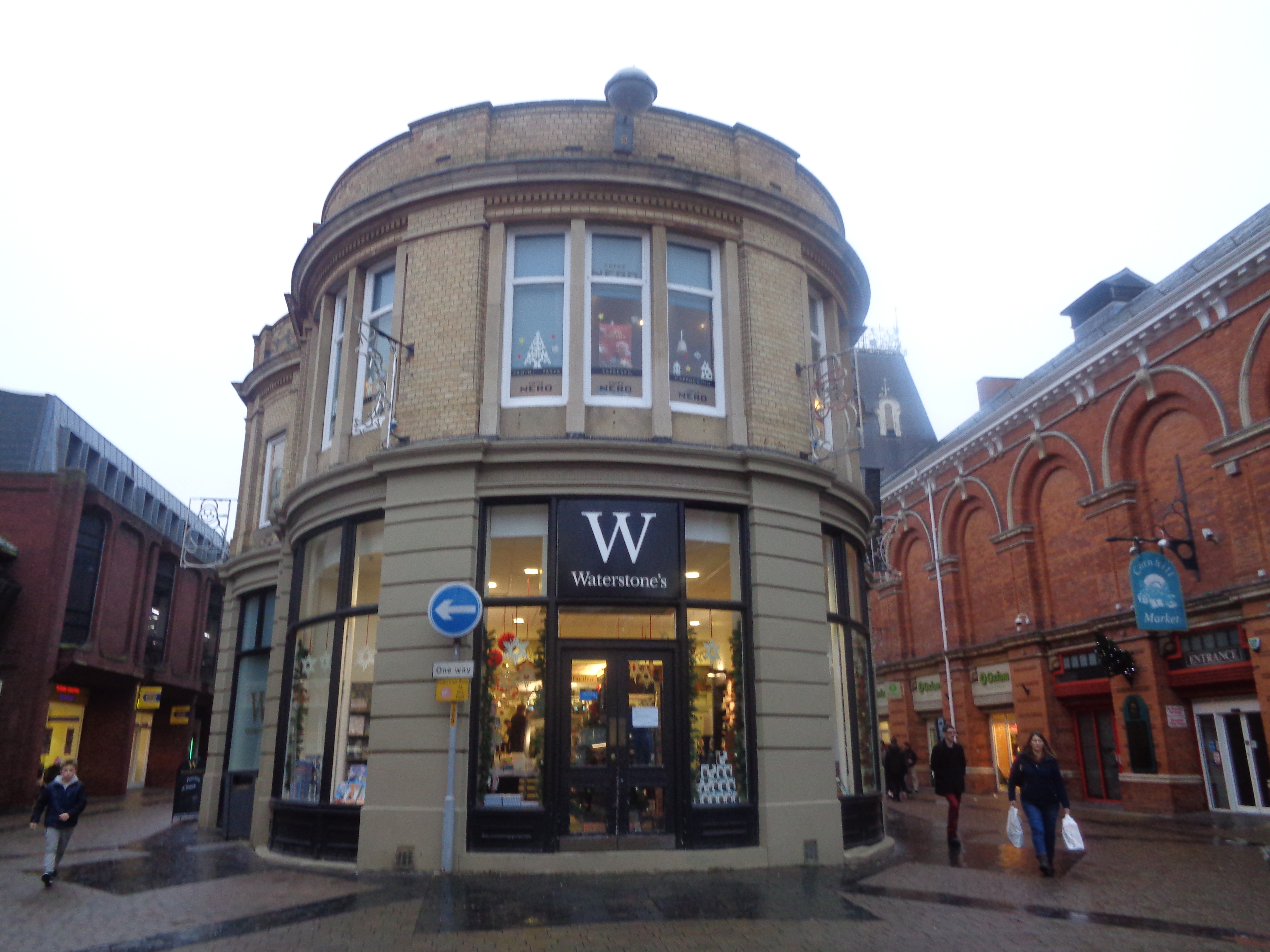 Waterstones, Cornhill, Lincoln, Lincolnshire, England. Taken on the afternoon of Sunday the 13th of December 2015.